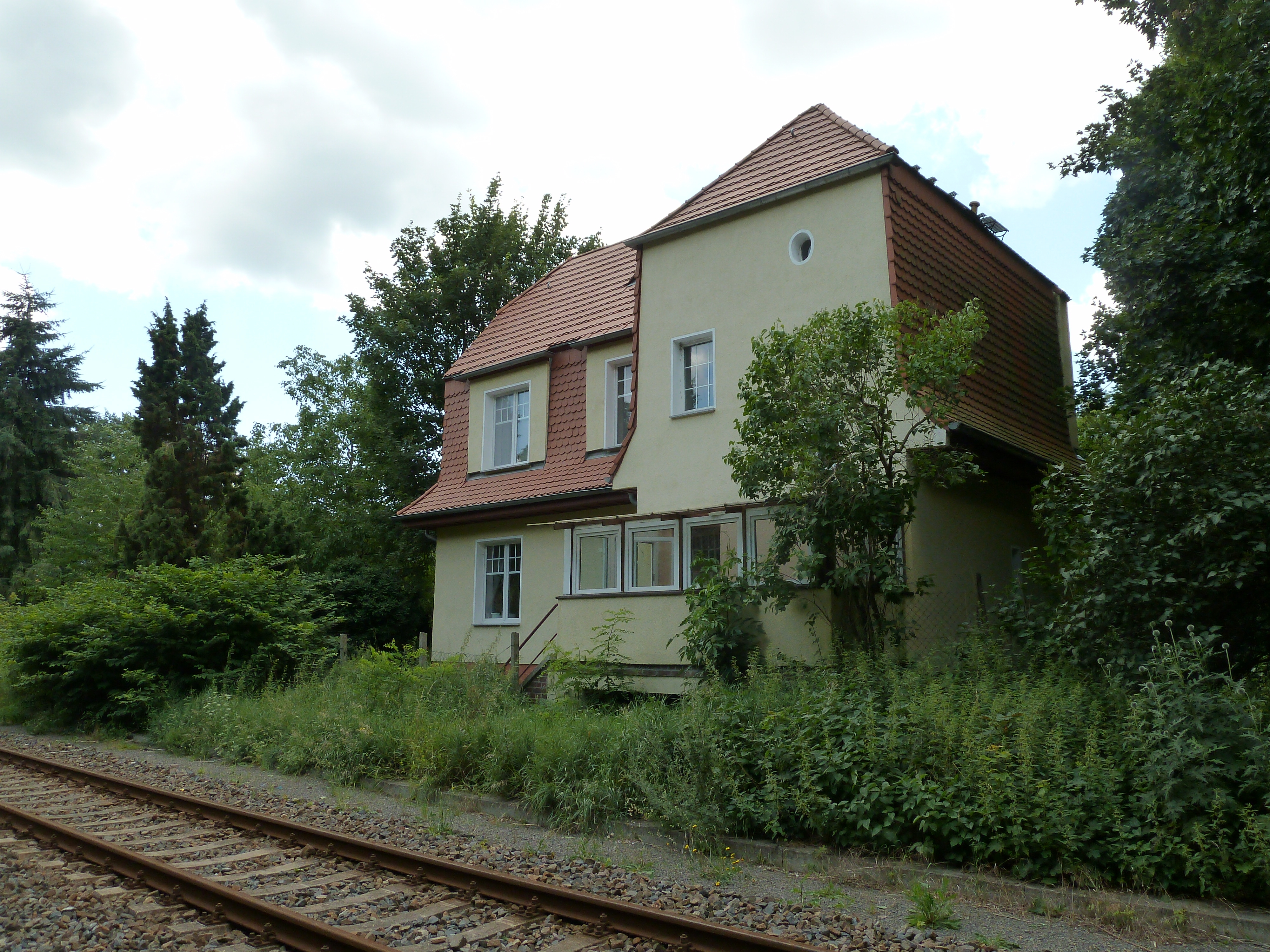 Booßen train station, former station building (until approx. 1915 in use, now living house)